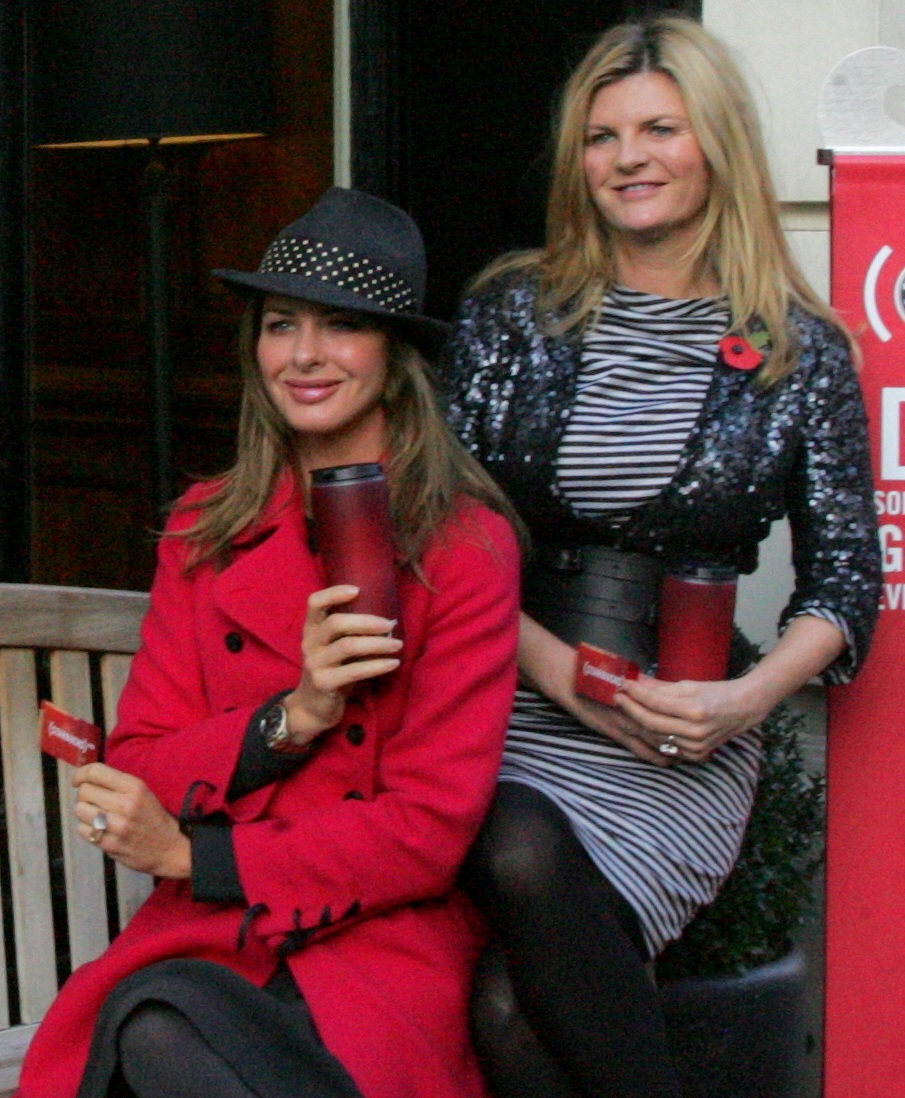 Trinny Woodall (left) and Susannah Constantine {right} at a Starbucks Product Red promotional event on November 3rd 2009 at the Starbucks branch on St Martin's Lane, London